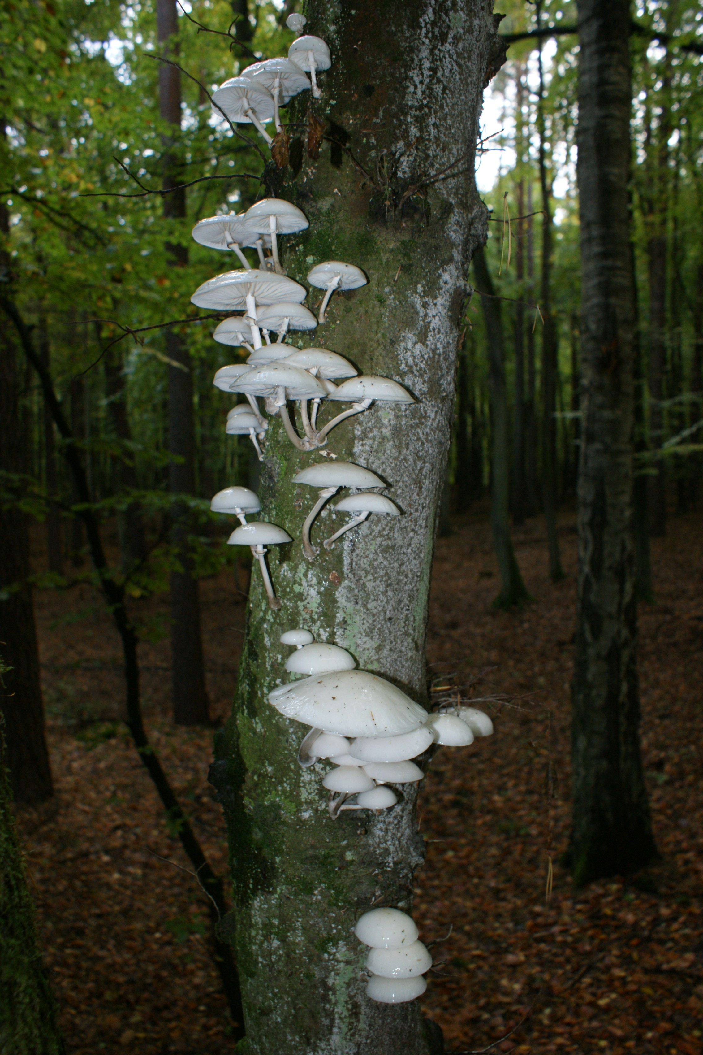 Oudemansiella mucida, Wolin Nataional Park (NW Poland)